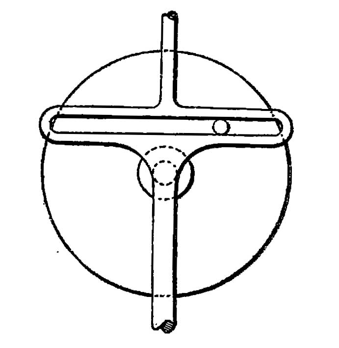 Scanned by uploader from old astronomy article (E G Fischer, "The Coast and Geodetic Survey Tide Predicting Machine No. 2", Popular Astronomy, vol.20 (1912), pages 269-285) -- too old to be in copyright.